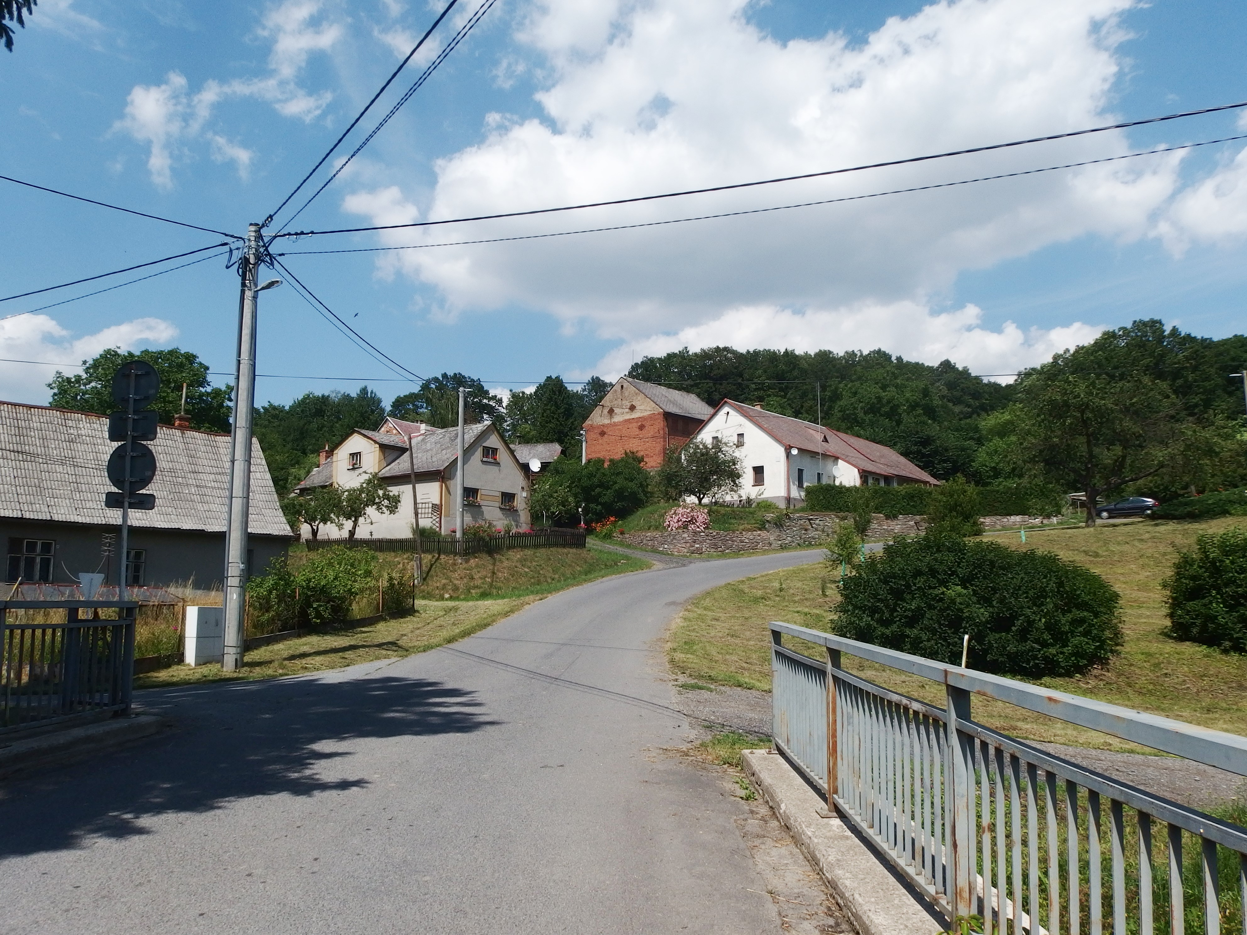 Rohle, Šumperk District, Czechia, part Nedvězí.